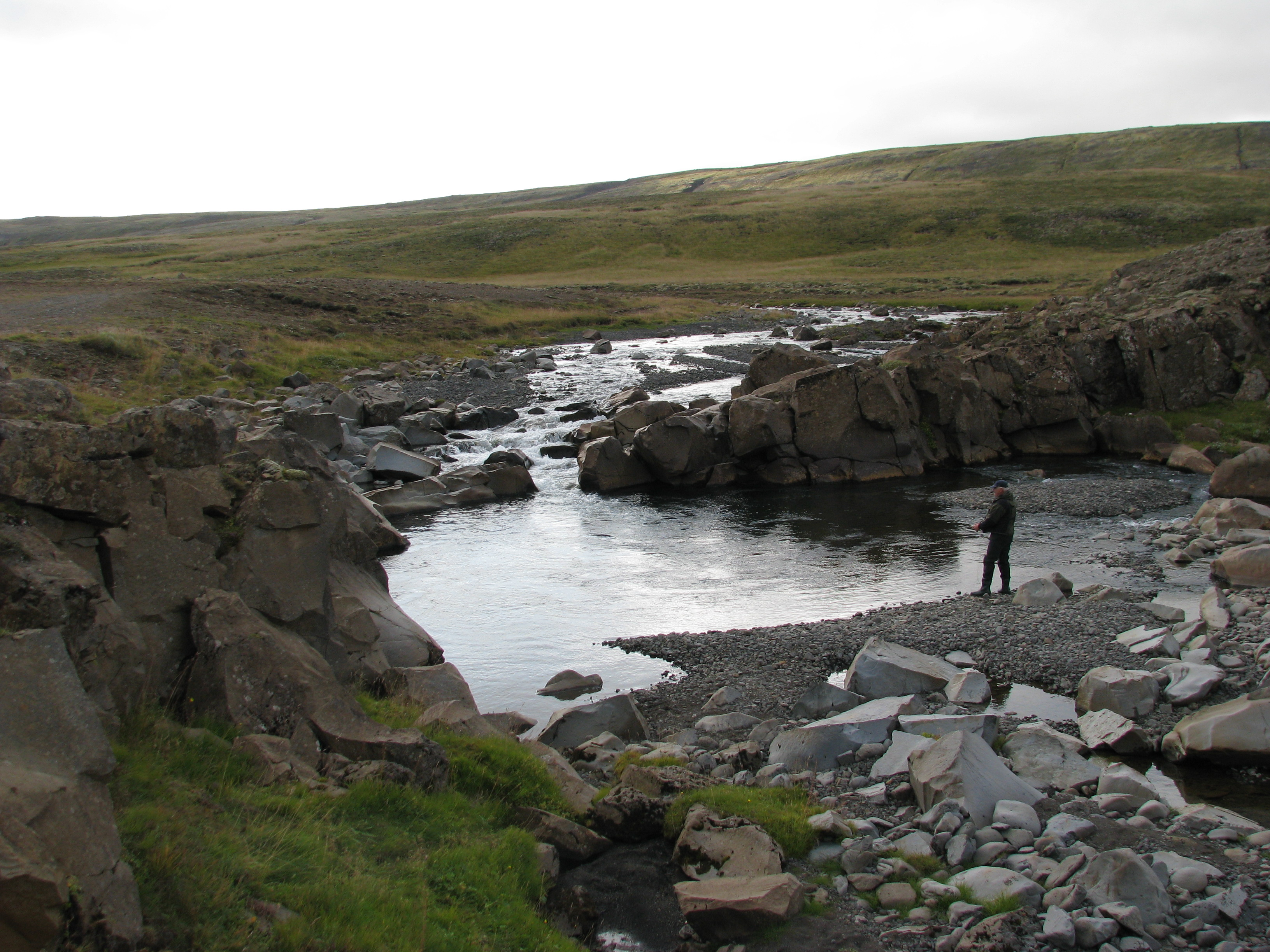 Laugarfoss, a waterfall in Iceland.